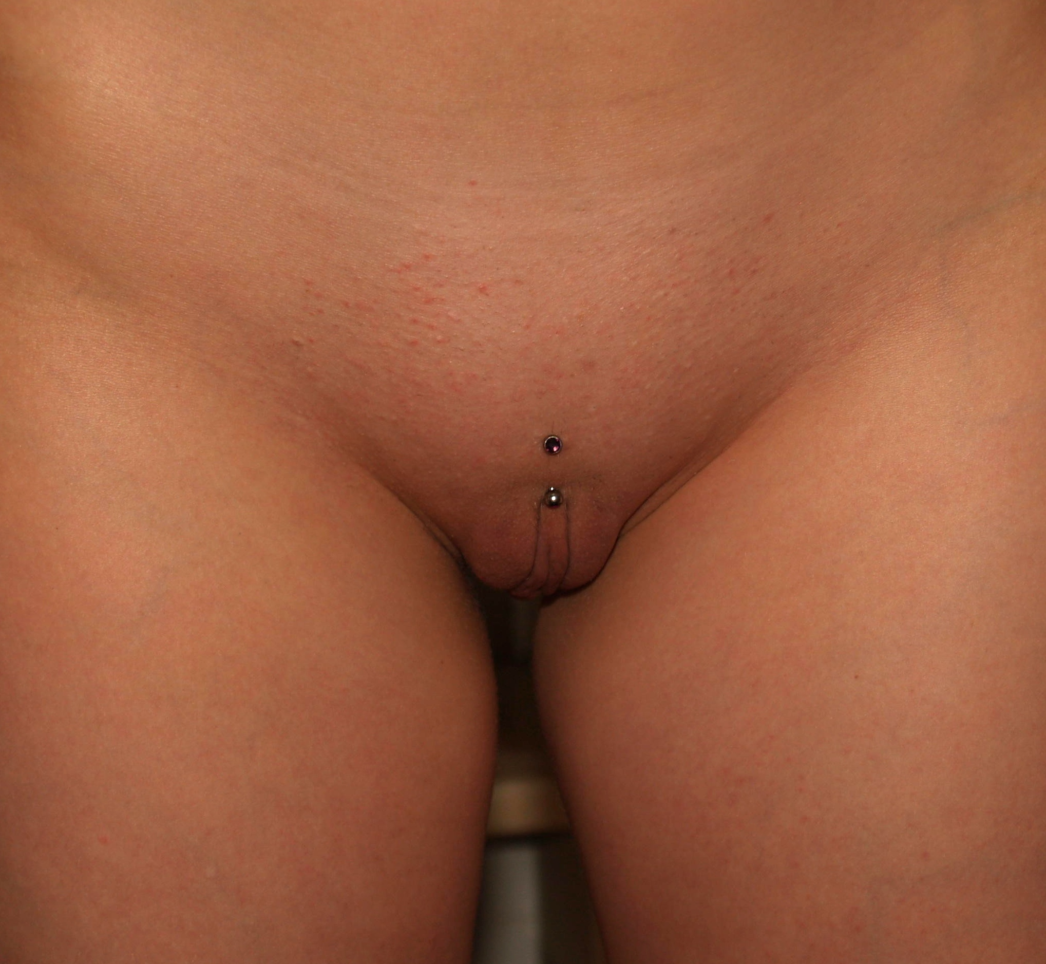 Christina Piercing - a piercing on the mons pubis